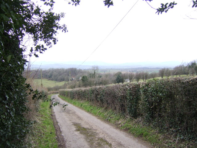 View westwards Gaer wood is in the middle distance. The profile of the Black Mountains is a haze on the skyline.